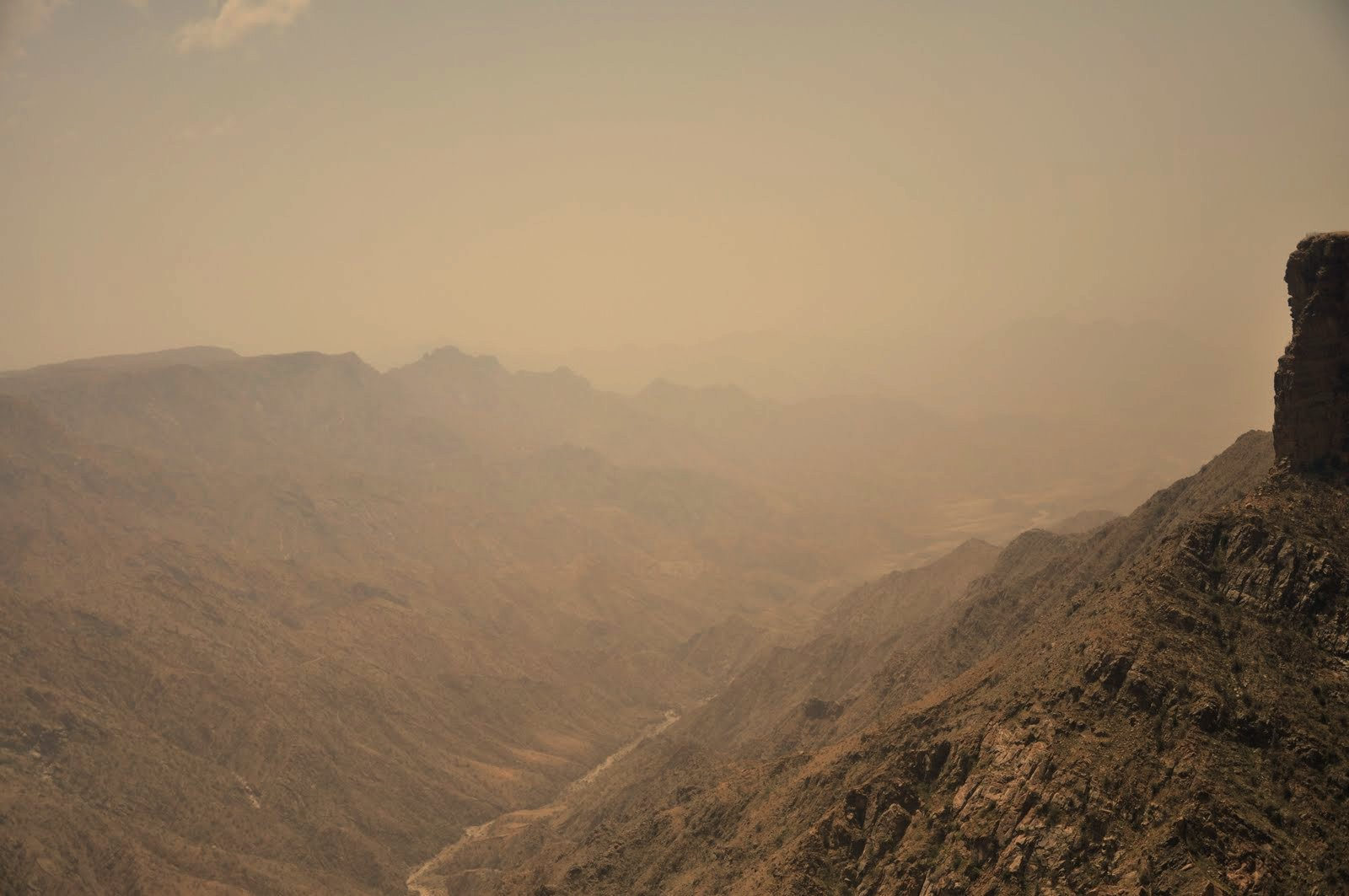 Taken from Habala Valley in Abha, the view shows the depth of Sarawat Mountain Range